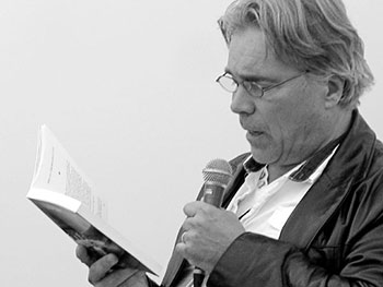 Einar Kárason in Aarhus Denmark 2011